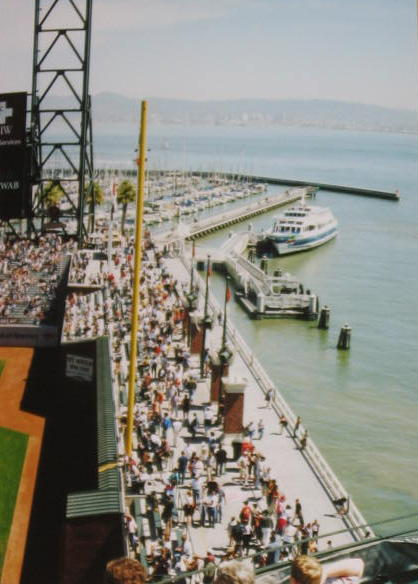 self created photograph by BurmaShaver 02:59, 18 May 2006 . . BurmaShaver . . 418×584 (50,040 bytes)